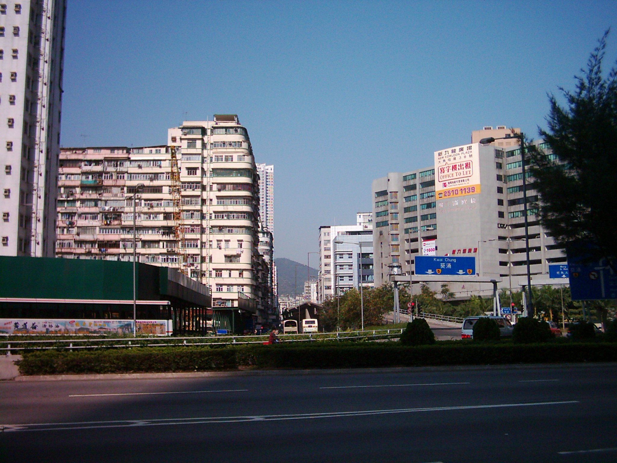 I, the creator of this work, hereby release it into the public domain.This applies worldwide.In case this is not legally possible:I grant anyone the right to use this work for any purpose, without any conditions, unless such conditions are required by law. (Don; 18 Dec 2005; Tai Kok Tsui 大角咀 2005)